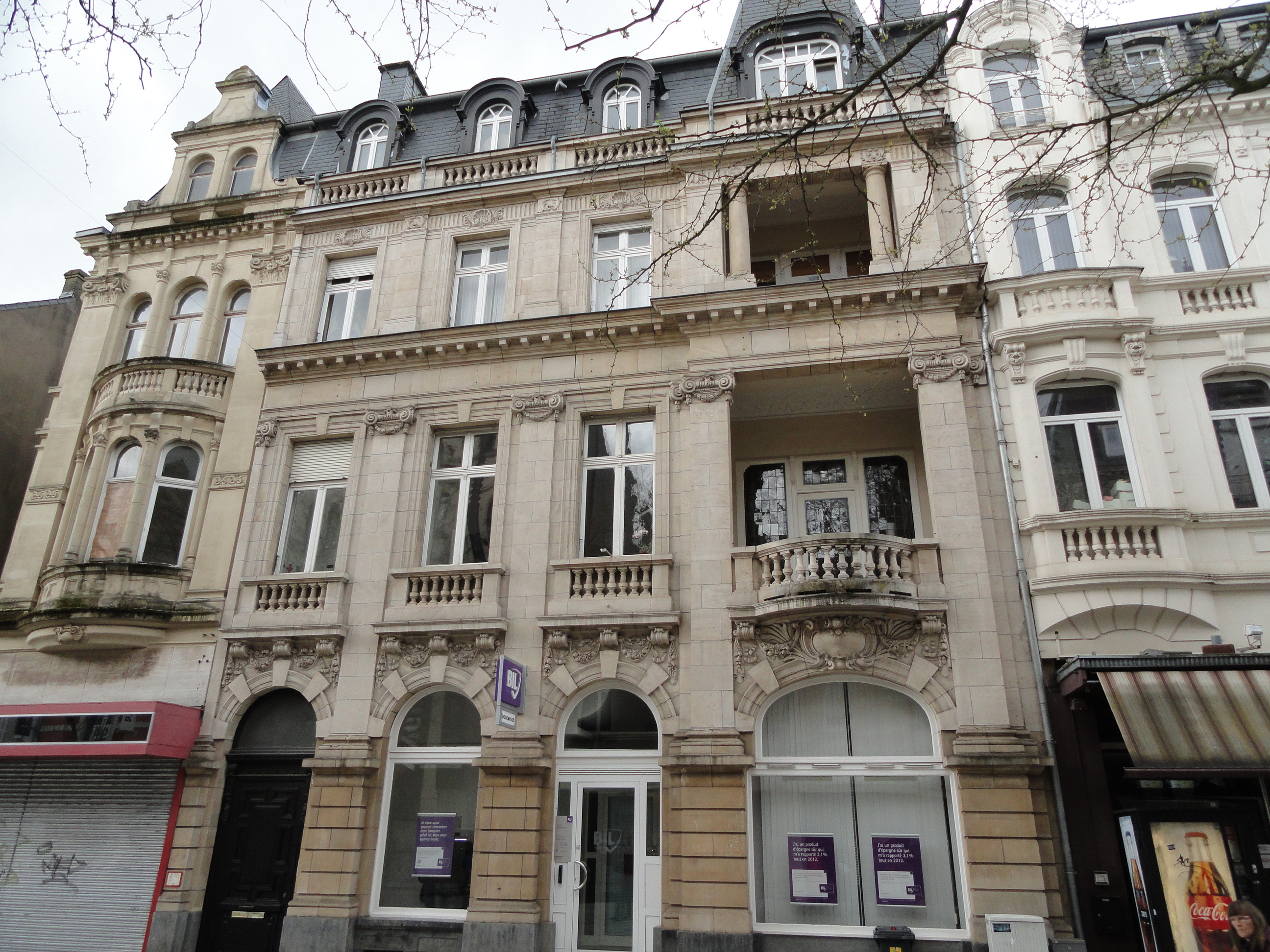 91 rue de l'Alzette -Esch-sur-Alzette - Grand Duché du Luxembourg - Style Louis XVI